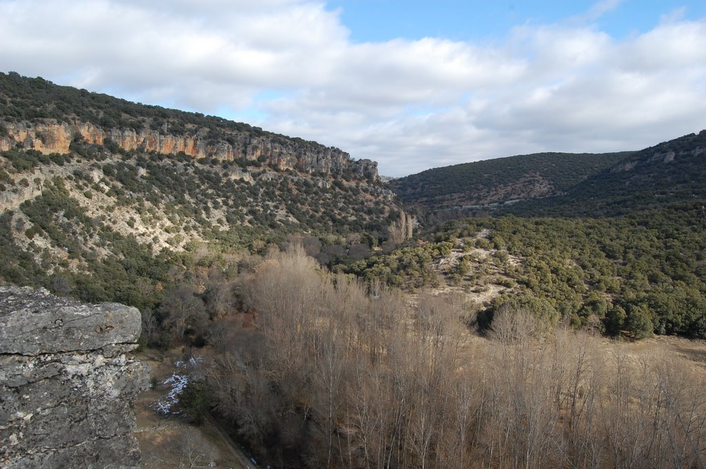 View of Barranco del Río Dulce (River Dulce Canyon) Guadalajara, Spain.